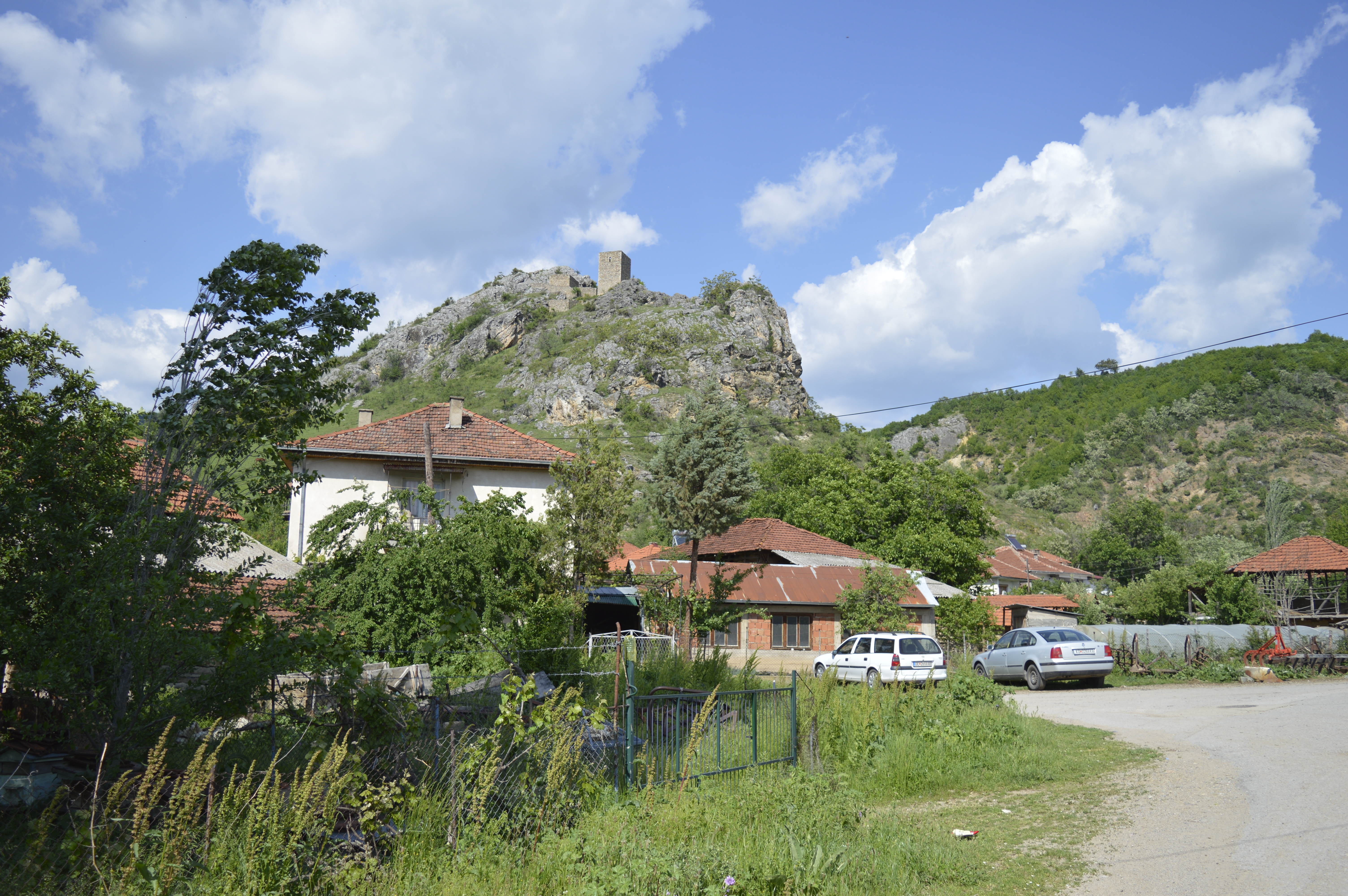 View of the archaeological site Gradište in the village Grad